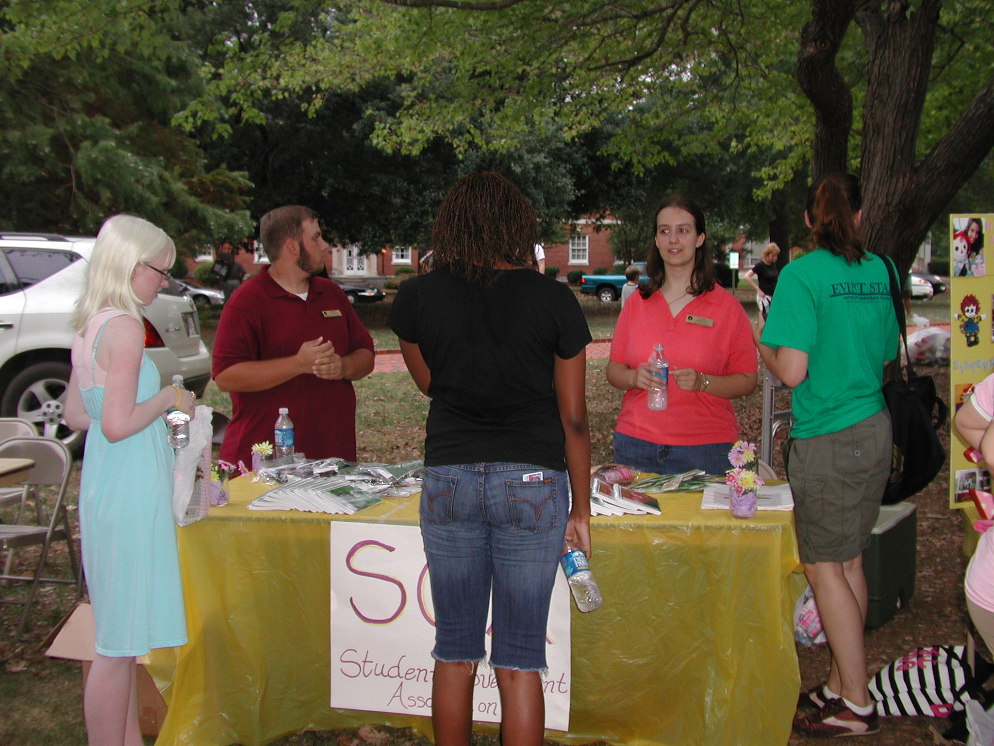 Students get copies of the Fledgling and talk to their student leaders at the SGA booth